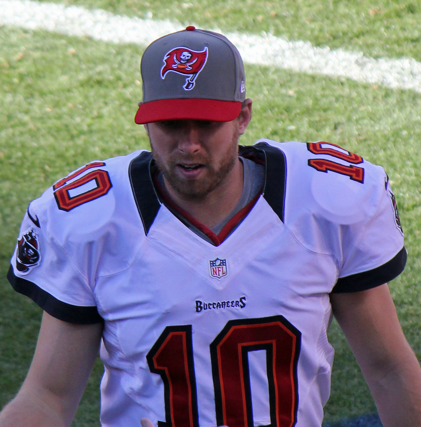 Connor Barth, a player on the National Football League.